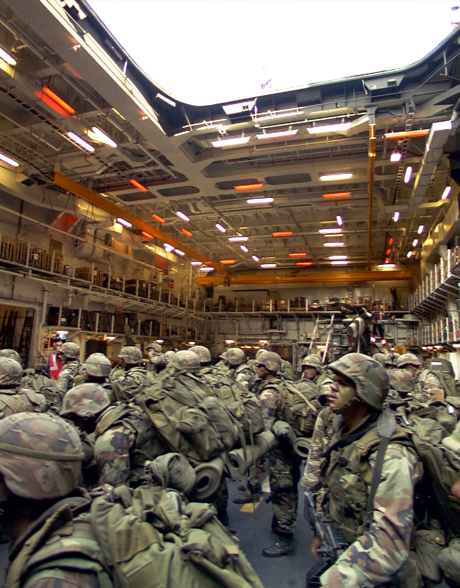 ID: DM-SD-02-07813 United States Marines from Lima Company, Battalion Landing Team 3/8, ride a lift into the vast hangar bay of the British amphibious assault ship HMS OCEAN (L12), during NORTHERN APPROACH, a NATO exercise.Marines from the 26th Marine Expeditionary Unit (Special Operations Capable) (MEU (SOC)) are here in Turkey to participate in the NATO exercise with amphibious forces from the United Kingdom and host nation Turkey.